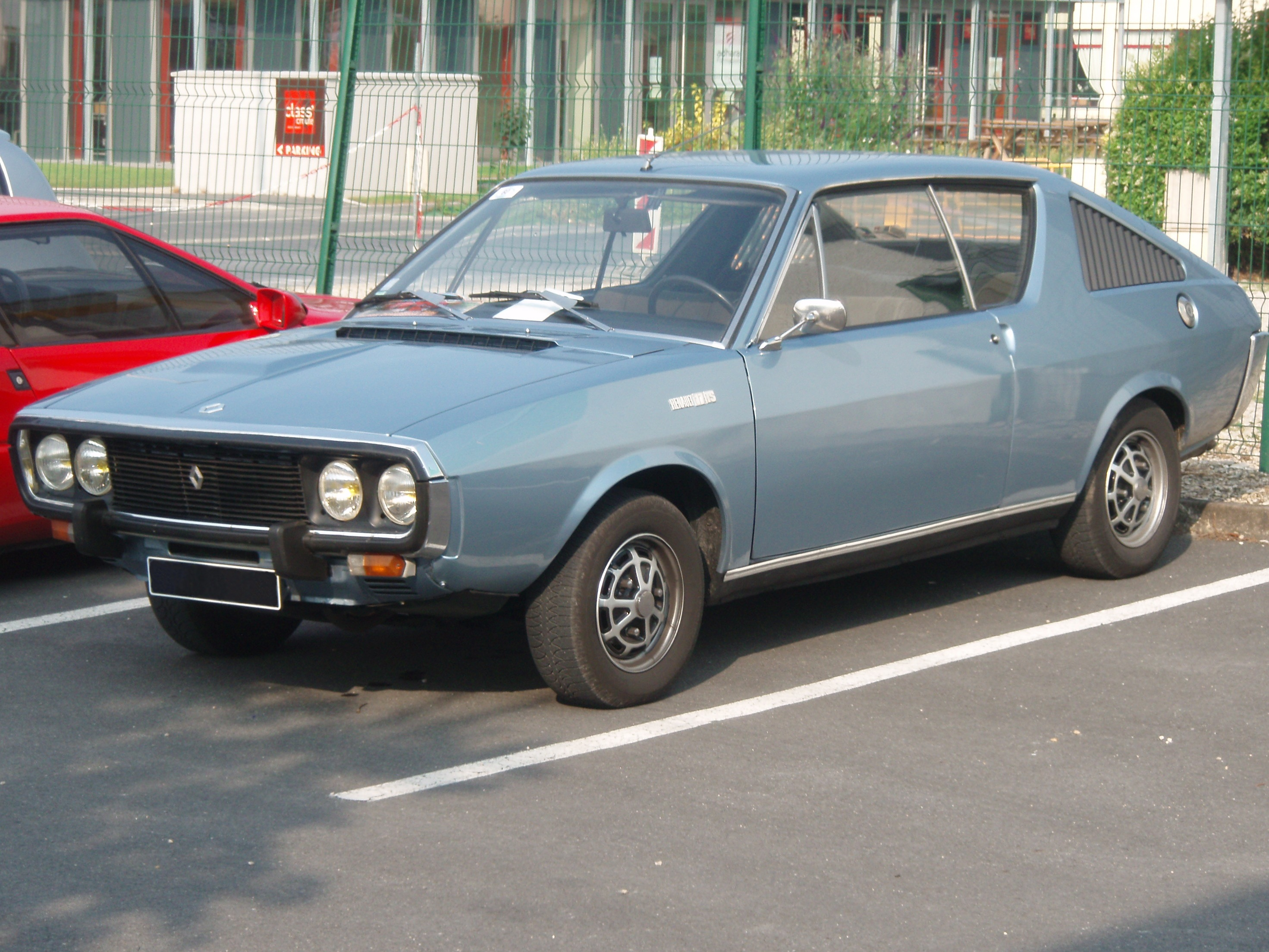 A Renault R17 TS (first version)